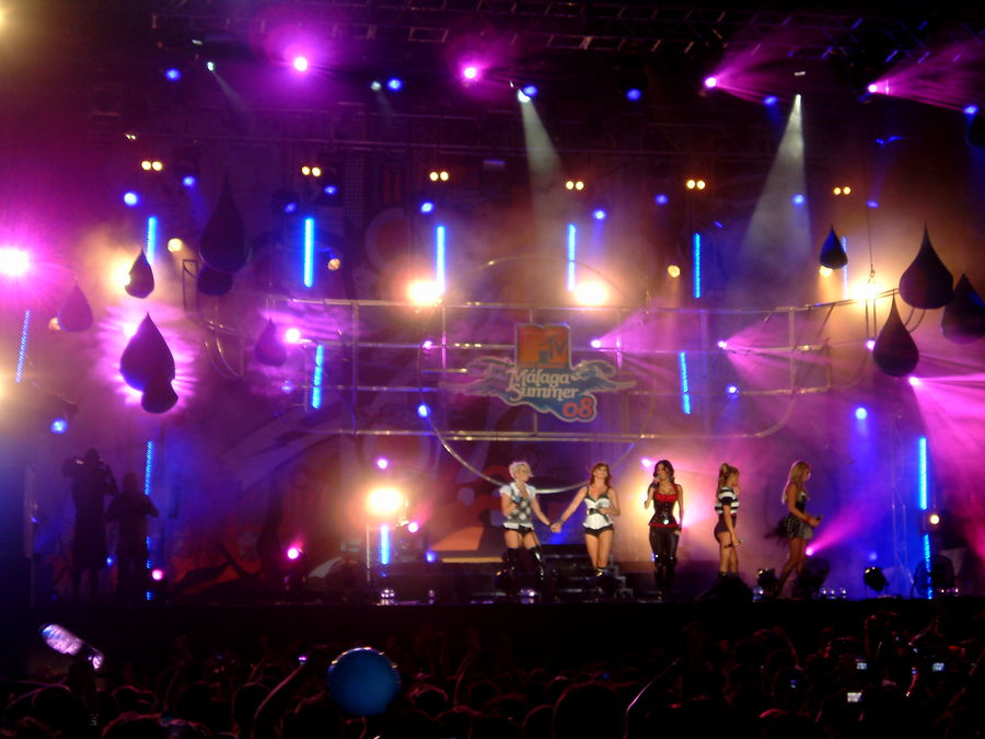 Pussycat Dolls_opening_Feria_de_malaga_2009